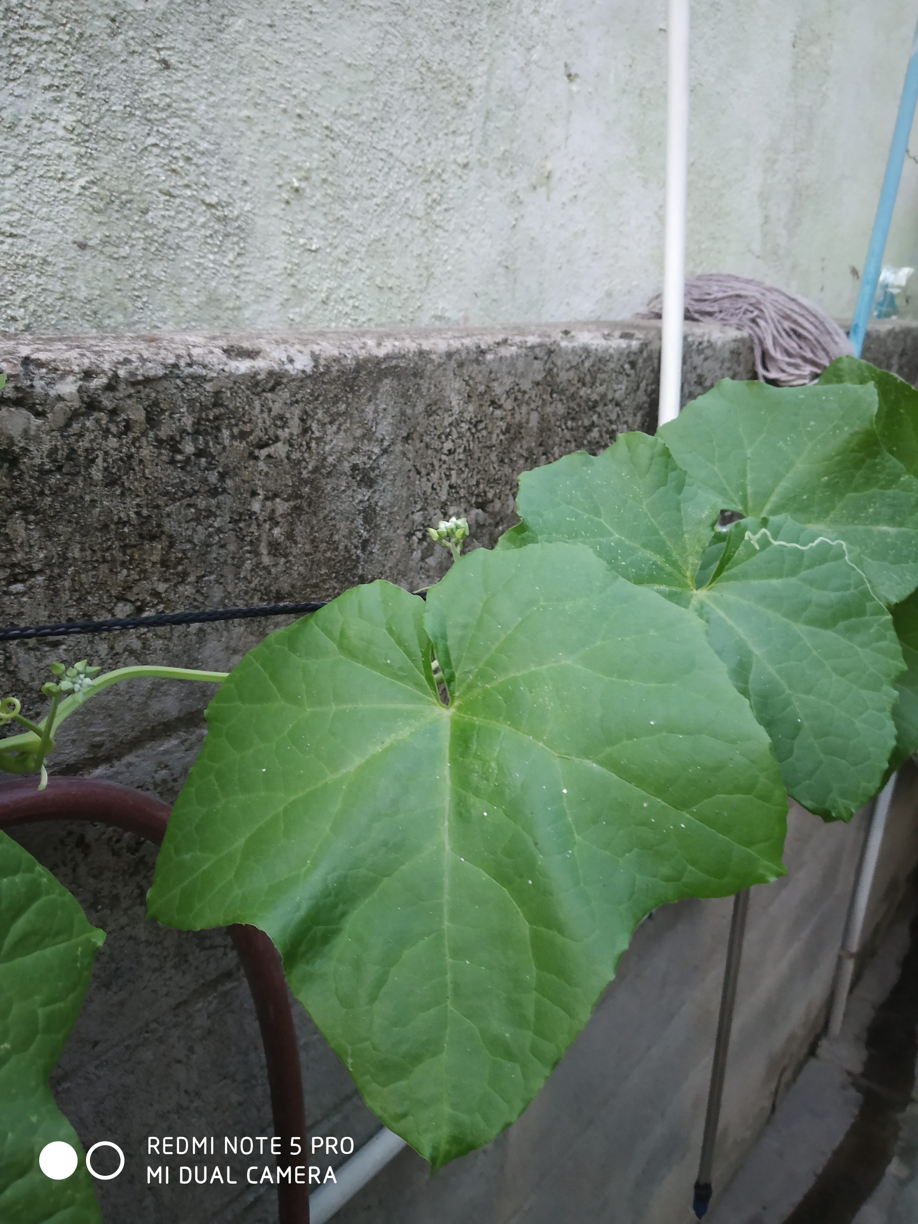 பீர்கன் என்ற கொடியின் இலை.